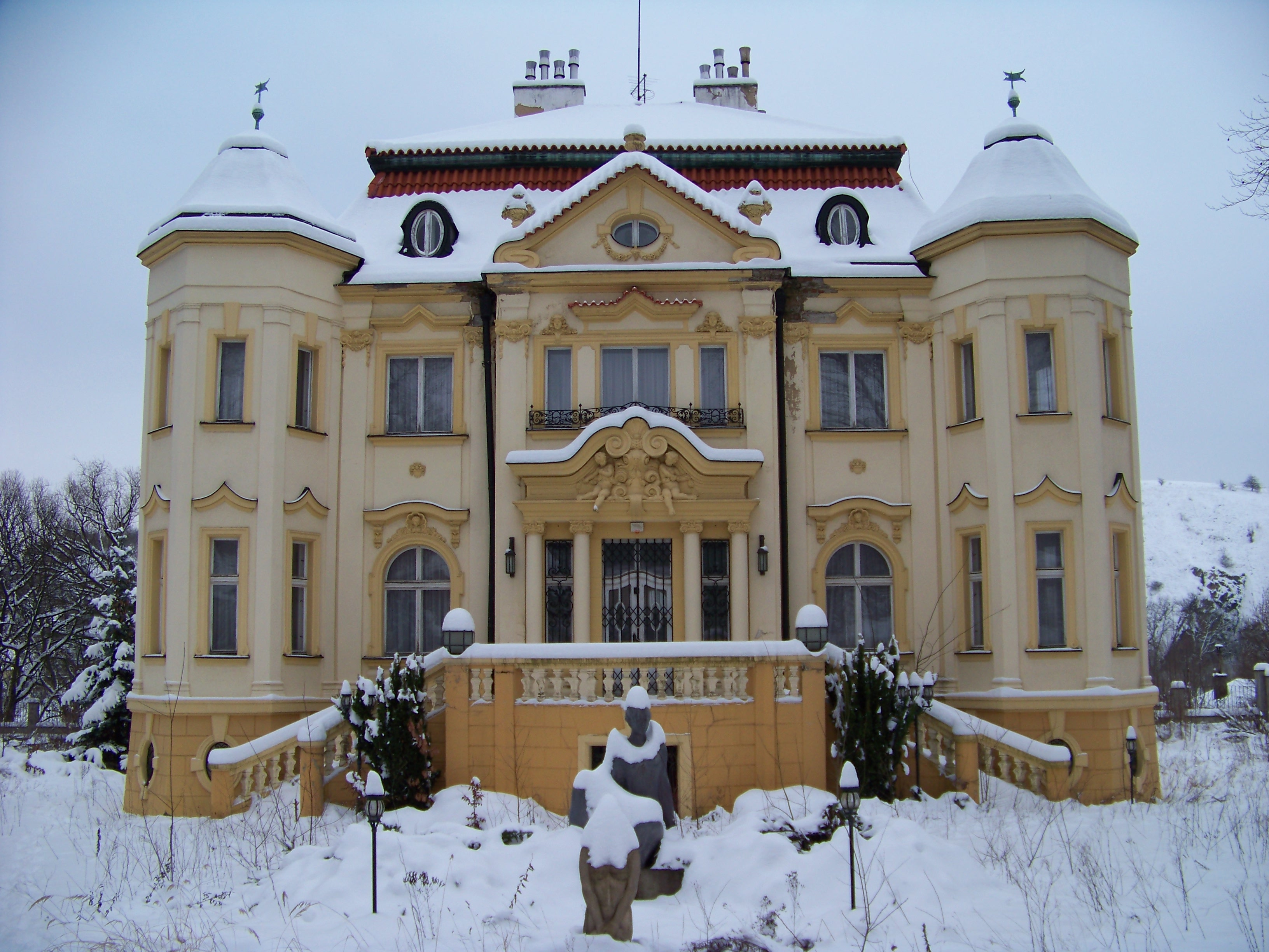 Srbsko, Beroun District, Central Bohemian Region, the Czech Republic. Villa No. 102.